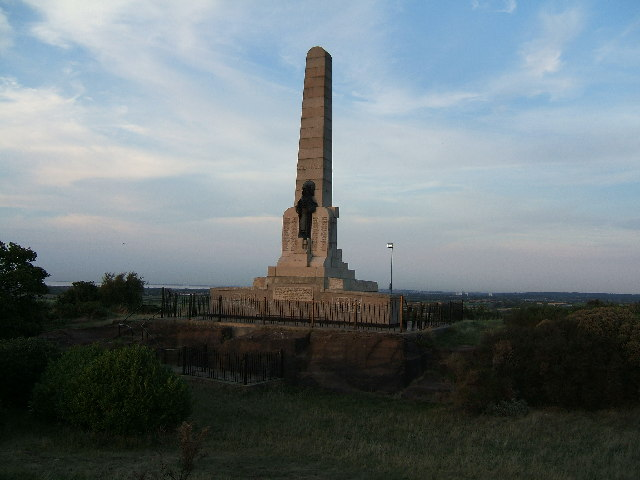 Dusk at the war memorial on Grange Hill, West Kirby The picture is taken looking towards the north-west.